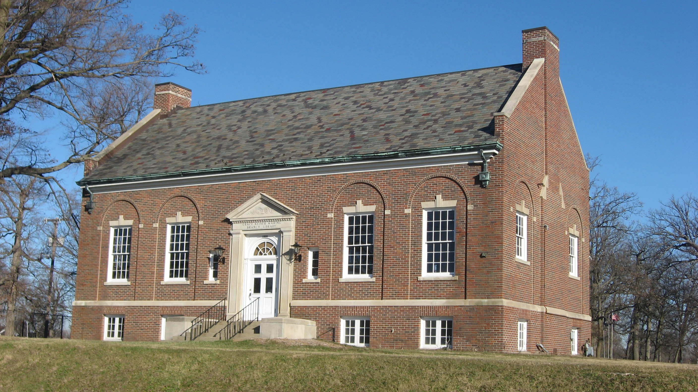 Front and southern end of the Grace Keiser Maring Library, located at 1808 S. Madison Street in Muncie, Indiana, United States. Built in 1930, it is listed on the National Register of Historic Places.